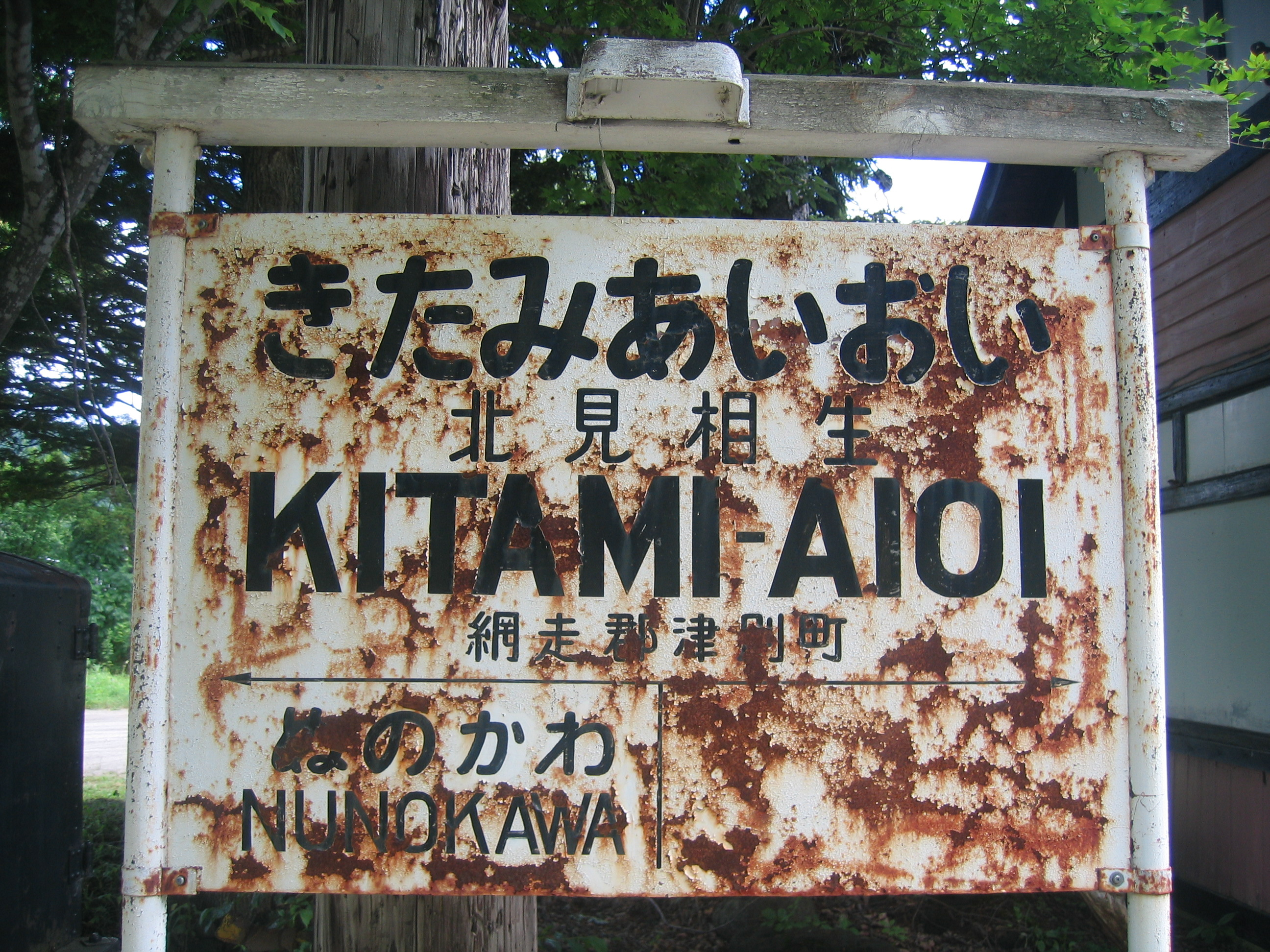 Sign of Kitami-Aioi Station